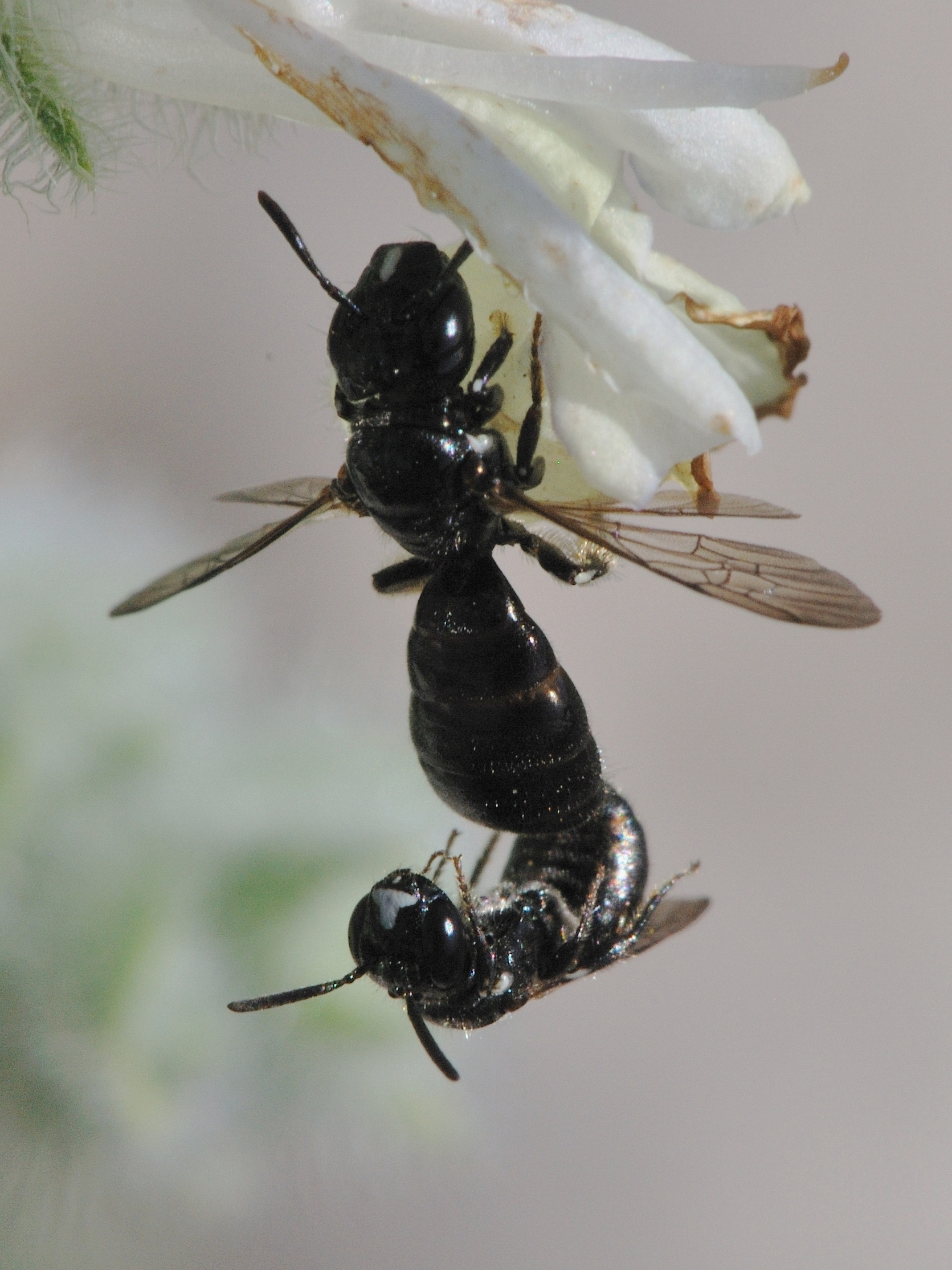 Ceratina cucurbitina copulating on a Salvia dominica flower, Judean Foothills, Israel, January 16, 2010.